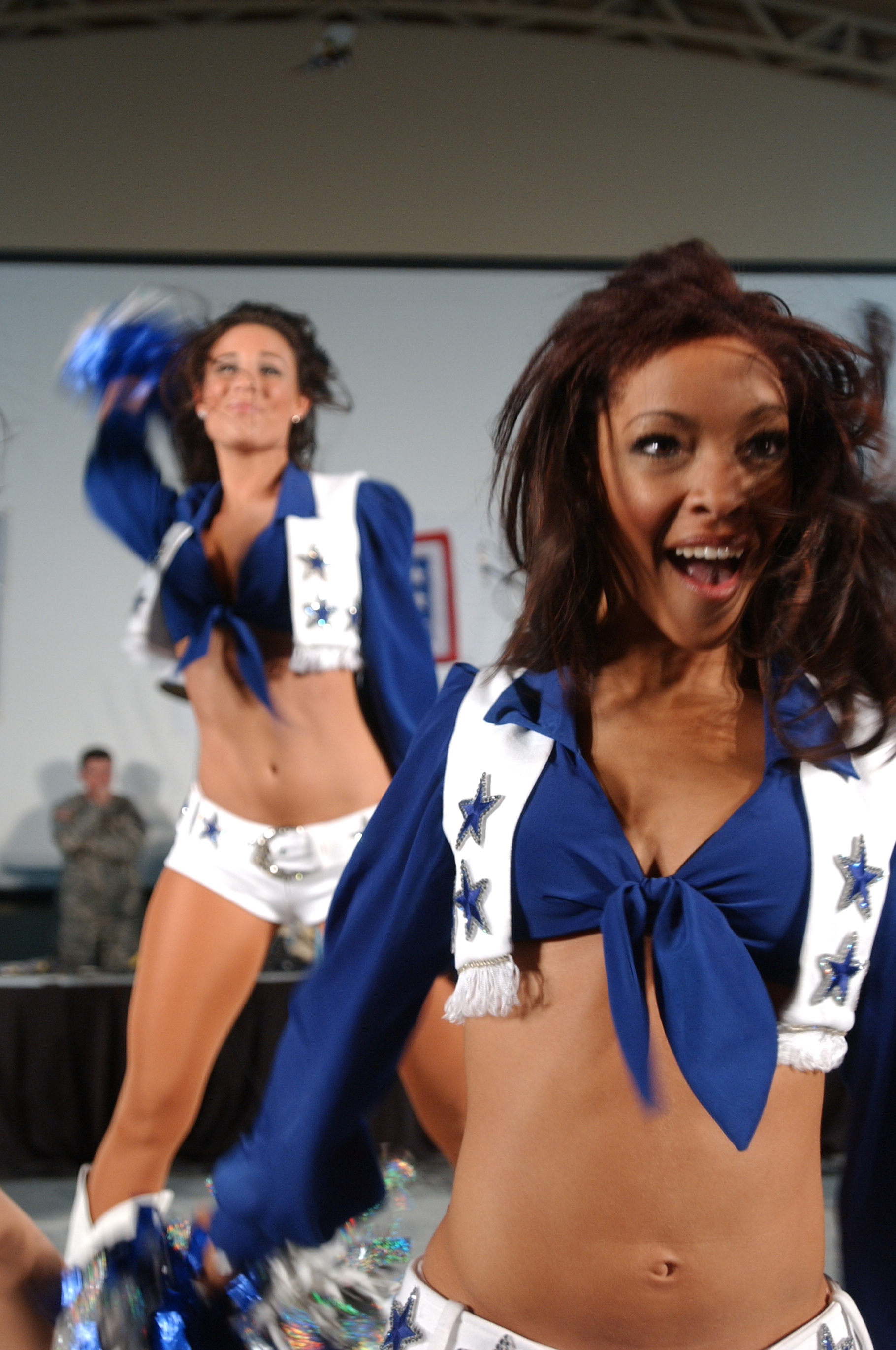 Dallas Cowboys Cheerleaders Dara McFarlane, foreground, and Becca Gambel, background, perform at the Sgt. Maj. of the Army's Hope and Freedom Tour at Camp Arifjan, Kuwait, Dec. 14. The show brought a mix of music and comedy to more than 5,000 service members in attendance.